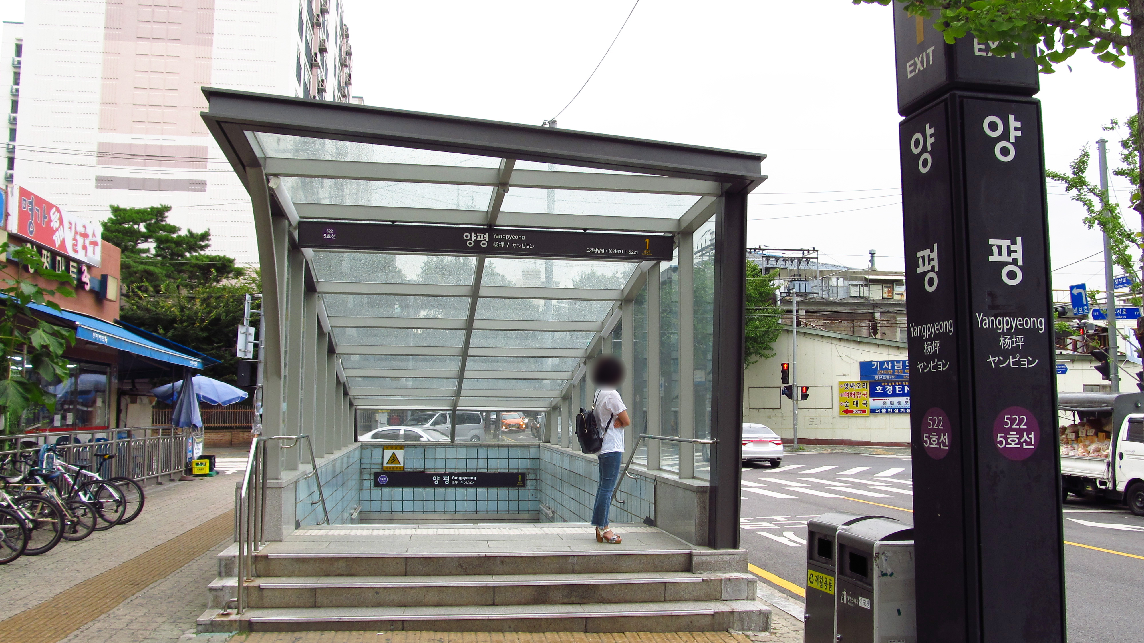 The no.1 entrance to Yangpyeong Station on the Seoul Metro Line 5 in Yeongdeungpo-gu, Seoul, Republic of Korea(South Korea)